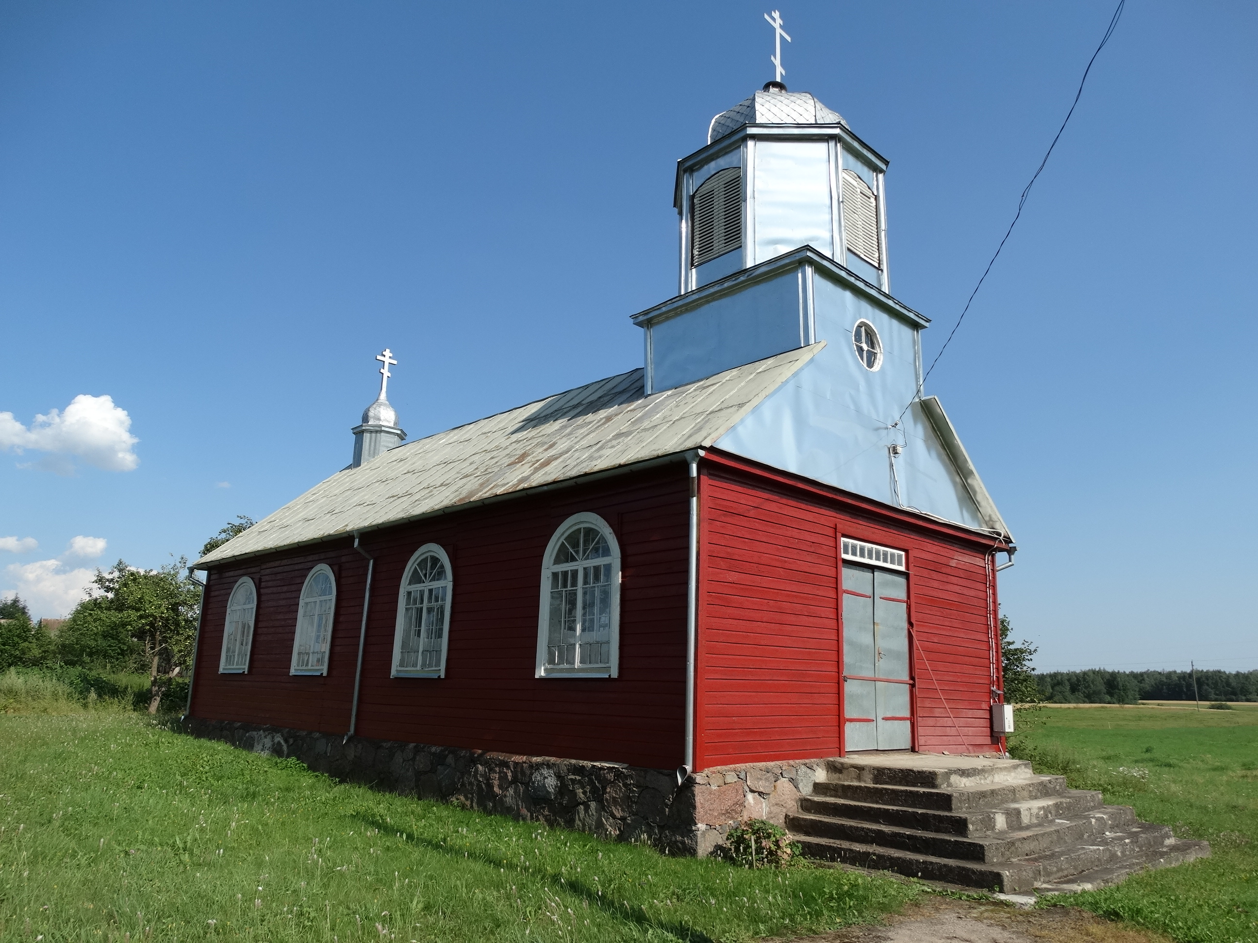 Orthodox Church of Old Believers in Maineivos, Rokiškis District, Lithuania